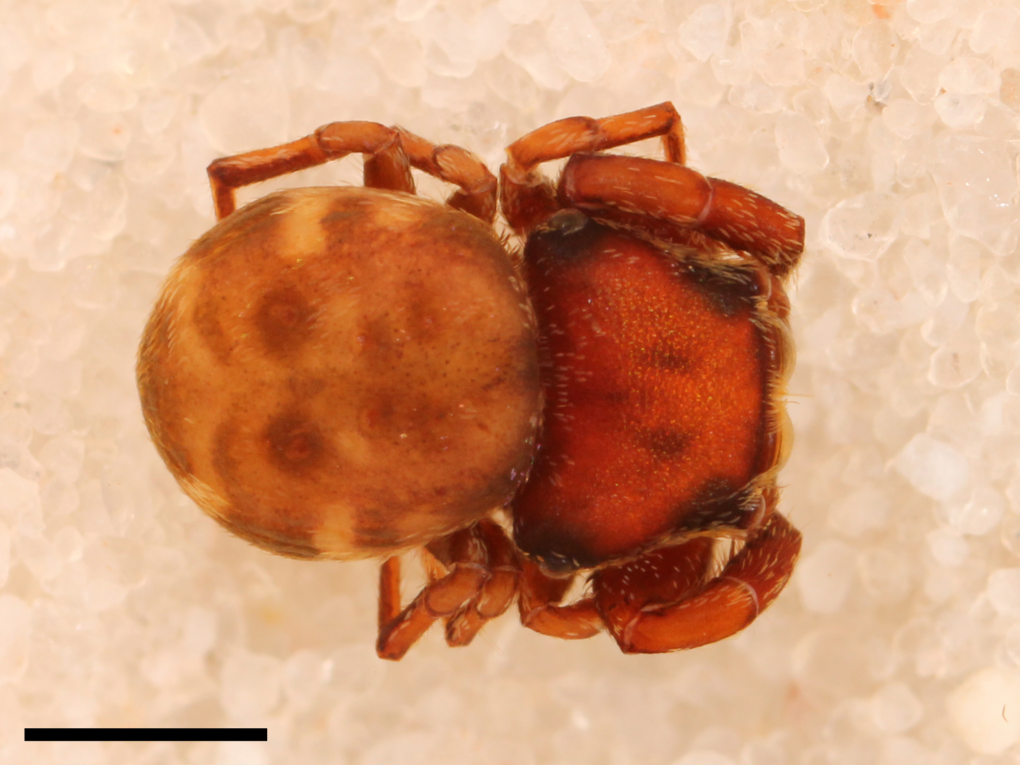 Female allotype of Rhetenor texanus jumping spider. Photographed under alcohol at the American Museum of Natural History. Specimen was collected on November 18, 1934, 15 miles southwest of Harlingen, Texas. Described by W. J. Gertsch in 1936.